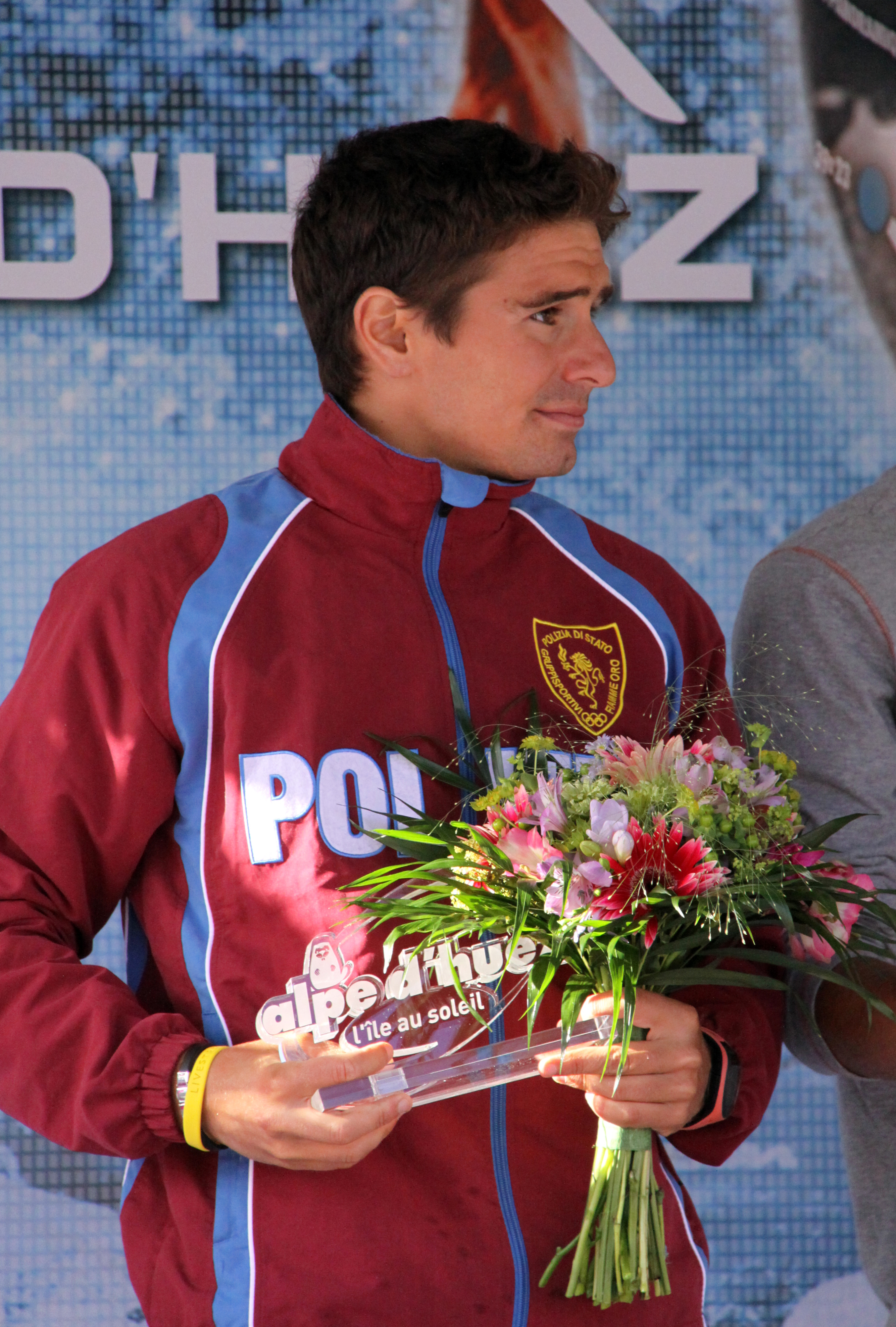 Alberto Casadei winning the Triathlon EDF Alpe d'Huez 2010